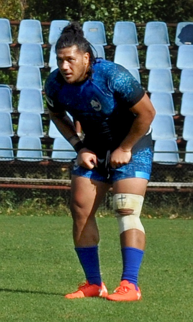 Tonga-born Romanian rugby union international Sione Faka'osilea, player of CSM Baia Mare rugby club seen in a match against CSA Steaua București in Round 5 of Romanian Rugby SuperLiga in September 2017